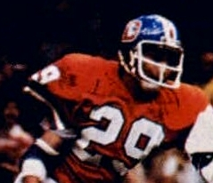 Denver Broncos defensive back Bernard Jackson pictured in a defensive play against the Dallas Cowboys in Super Bowl XII.